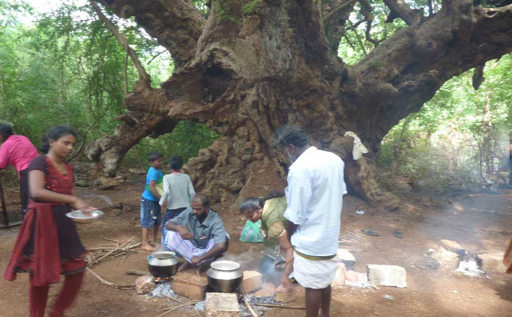 Photo taken on the day of Pongal 2015 in the Vayavilan South Gnana Vairavar.